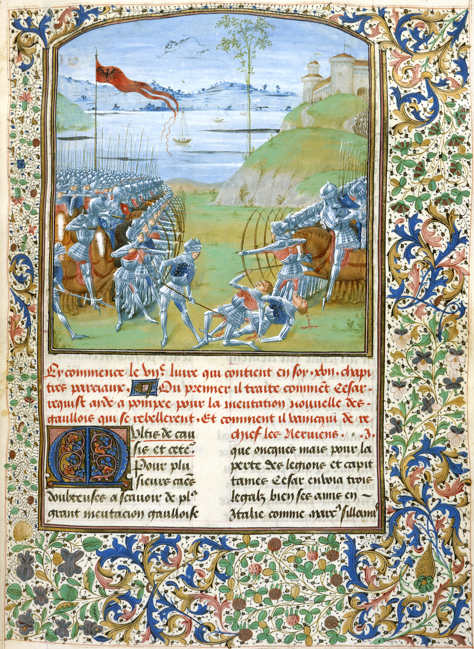 A battle scene [Whole folio] A battle; archers facing each other, with mounted soldiers in the second line; landscape with castle and lake in background. Text beginning with decorated initial 'M'; borders with foliate decoration